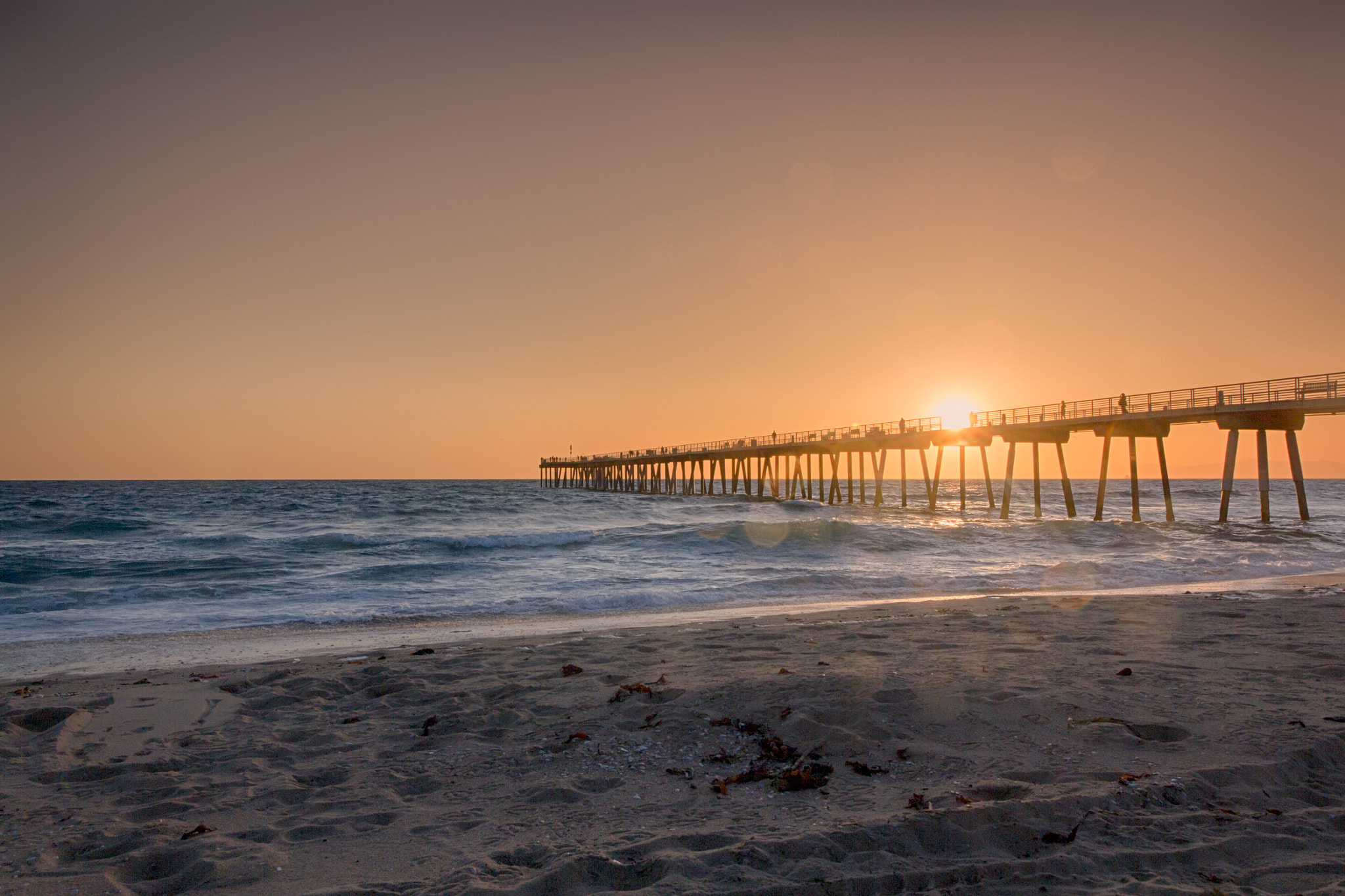 500px provided description: Hermosa Beach Pier at sunset. The lens flare is intentional. I used a GND filter to avoid blowing out the sky. [#sunset ,#beach ,#coastline ,#waves ,#california ,#pier ,#sand ,#surf ,#los angeles ,#waterfront ,#dusk ,#boardwalk ,#hermosa beach]